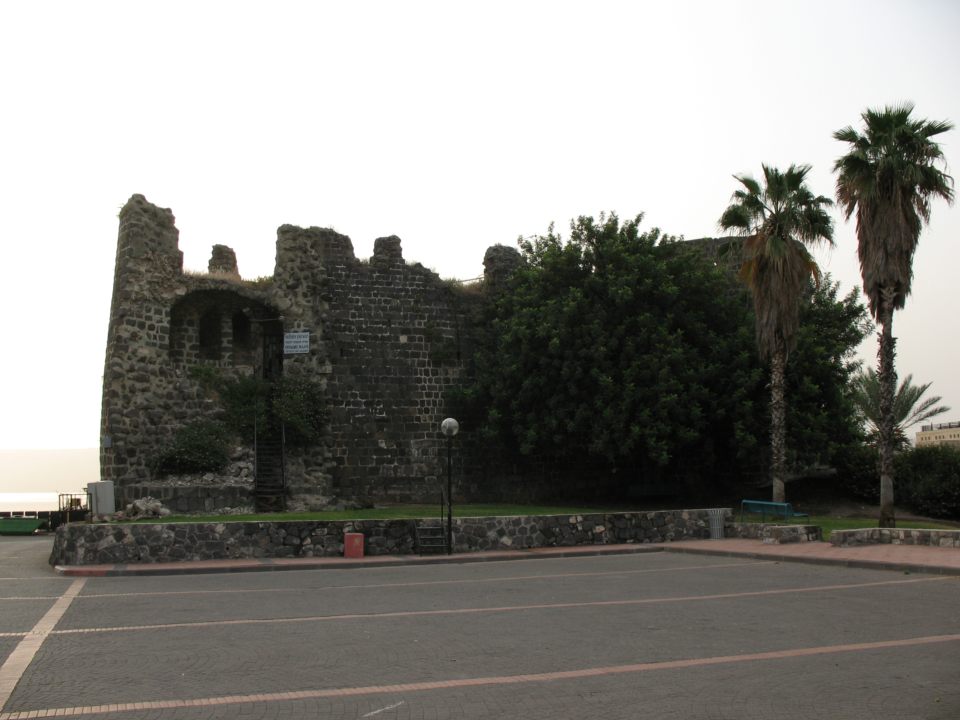 Crusader Citadel, Tiberias. Tajar street